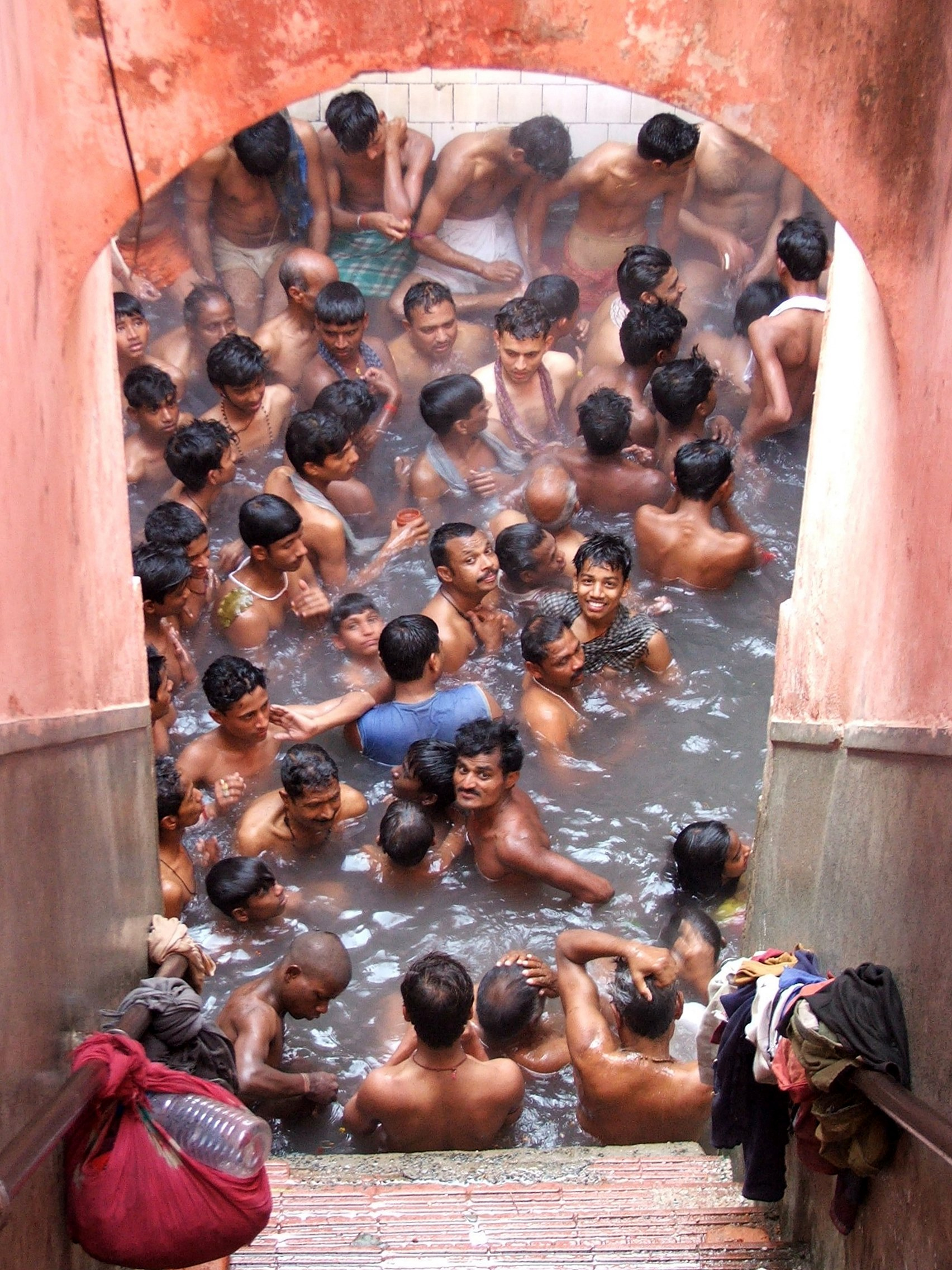 Hindus bathing in the hotsprings at the place of the ancient Tapodarama Buddhist monastery in Rajgir. Currently the site is a Hindu temple called the Lakshminarayan Temple.